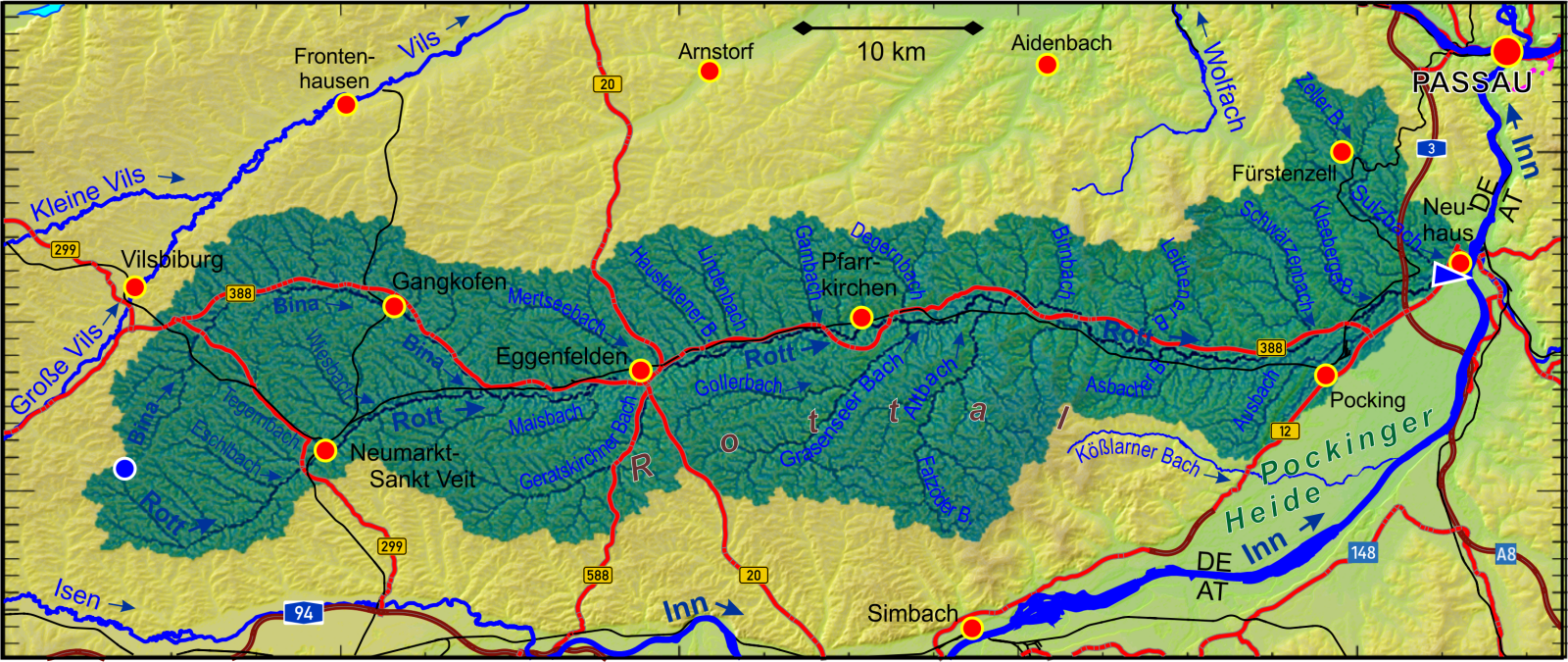 Map of the catchment area of the Rott river (enhanced area)